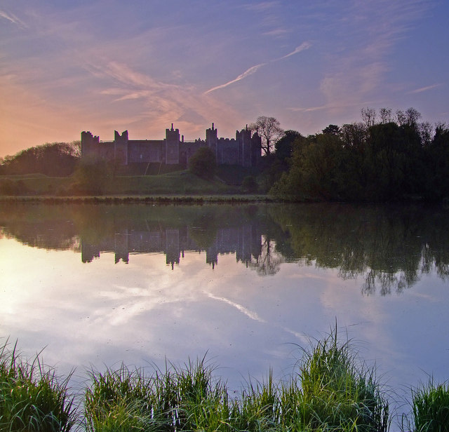 Framlingham Castle reflected in The Mere,at dawn.